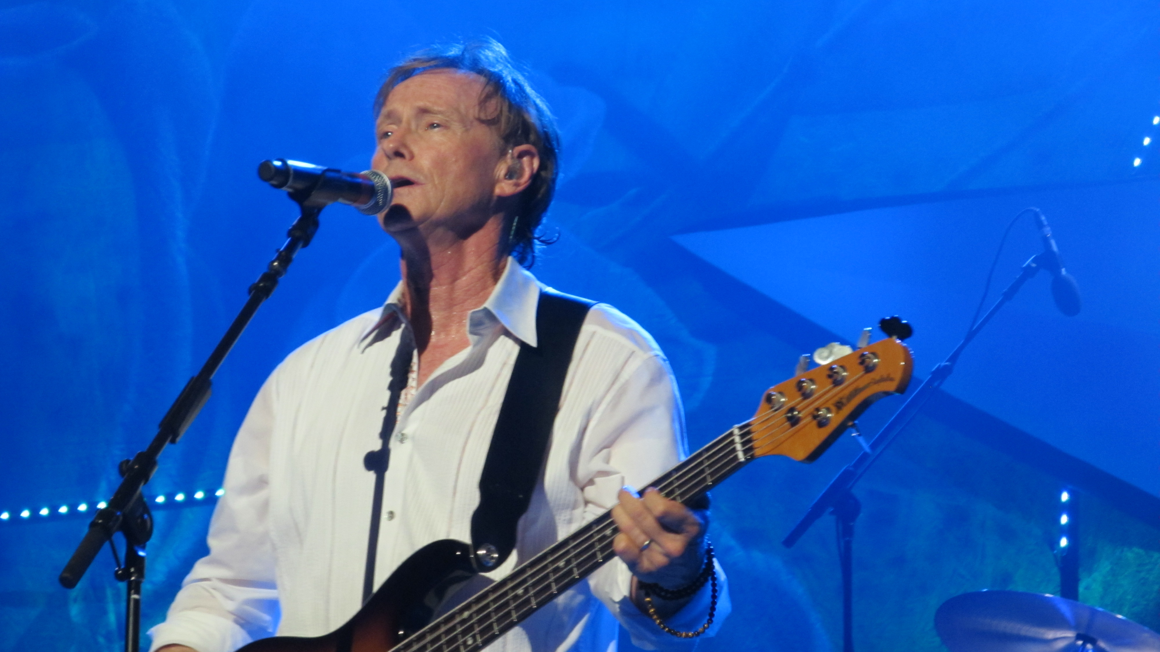 Richard Page concert in Paris June 26, 2011 : Ringo Starr and his All-Starr Band